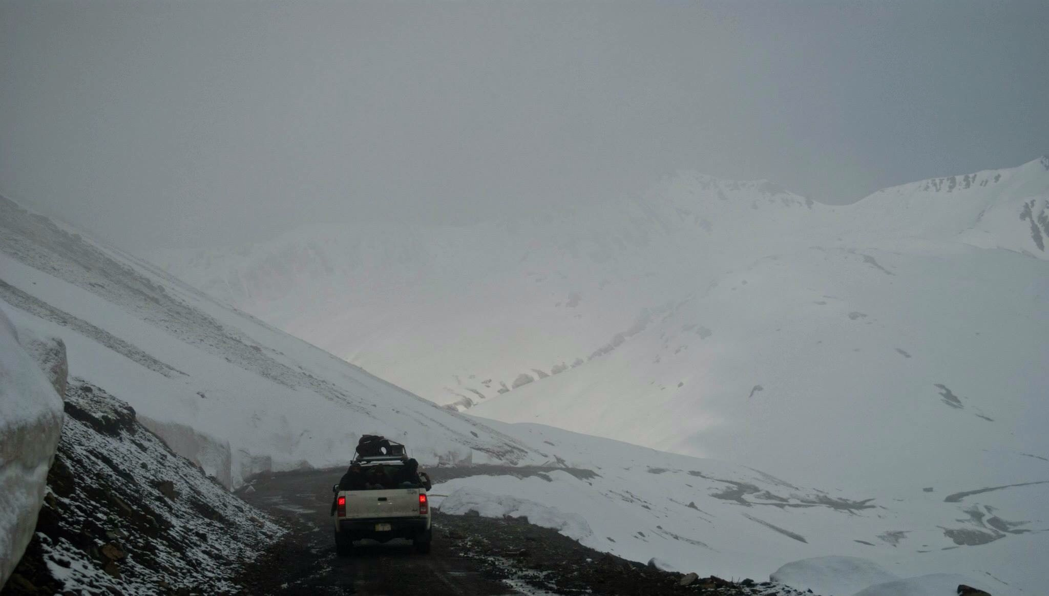 Crossing the Burzil pass in Kashmir to get to Minimarg in mid June and it was still snowing!